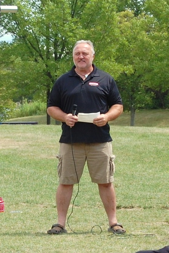 Bill Kazmaier, the World's Strongest Man 1980, 1981 & 1982.